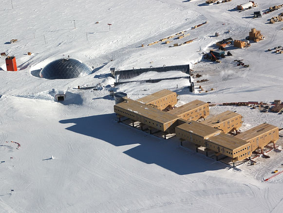 2005 South Pole Station "Back around again...the windows on the closest corner are the new Station Operations Center (SOC), which will replace the old comms under the dome (WNH)".